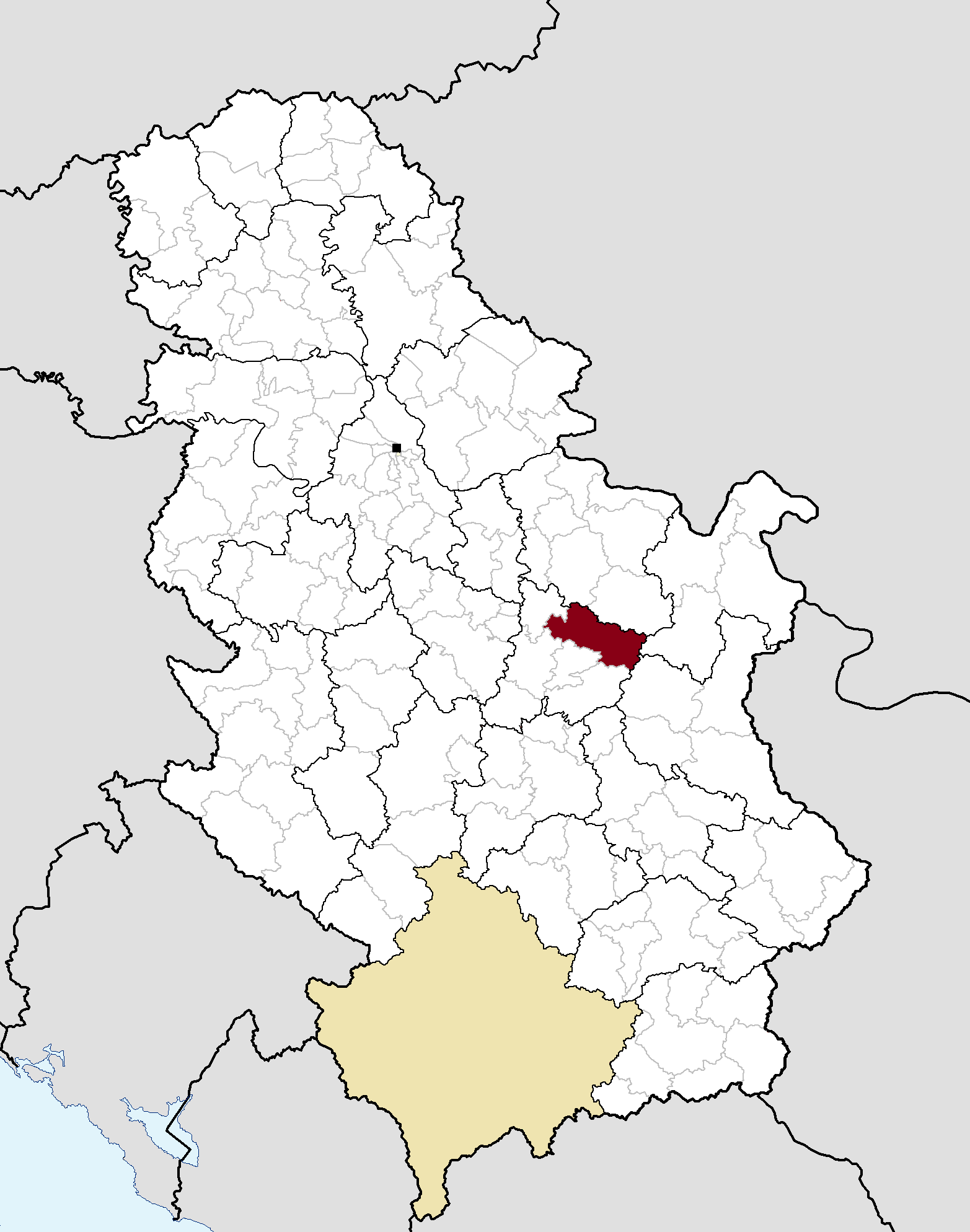 Municipal location in Serbia